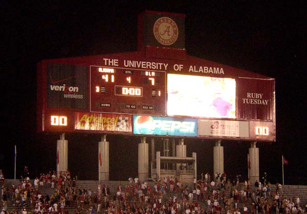 Final scoreboard in Bryant–Denny Stadium following the Alabama Crimson Tide football victory over the Louisiana–Monroe Warhawks football team in 2006